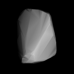 3D convex shape model of 1322 Coppernicus, computed using light curve inversion techniques. J. Hanuš, J. Ďurech, M. Brož, B. D. Warner (June 2011). "A study of asteroid pole-latitude distribution based on an extended set of shape models derived by the lightcurve inversion method". Astronomy and Astrophysics 530: A134. ISSN 0004-6361. arXiv